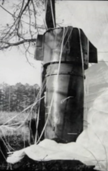 Close up of one of two Mk.39 thermonuclear bombs rests in a field in Faro, NC after falling from a disintegrating B-52 bomber in an incident known as the "1961 Goldsboro B-52 crash."